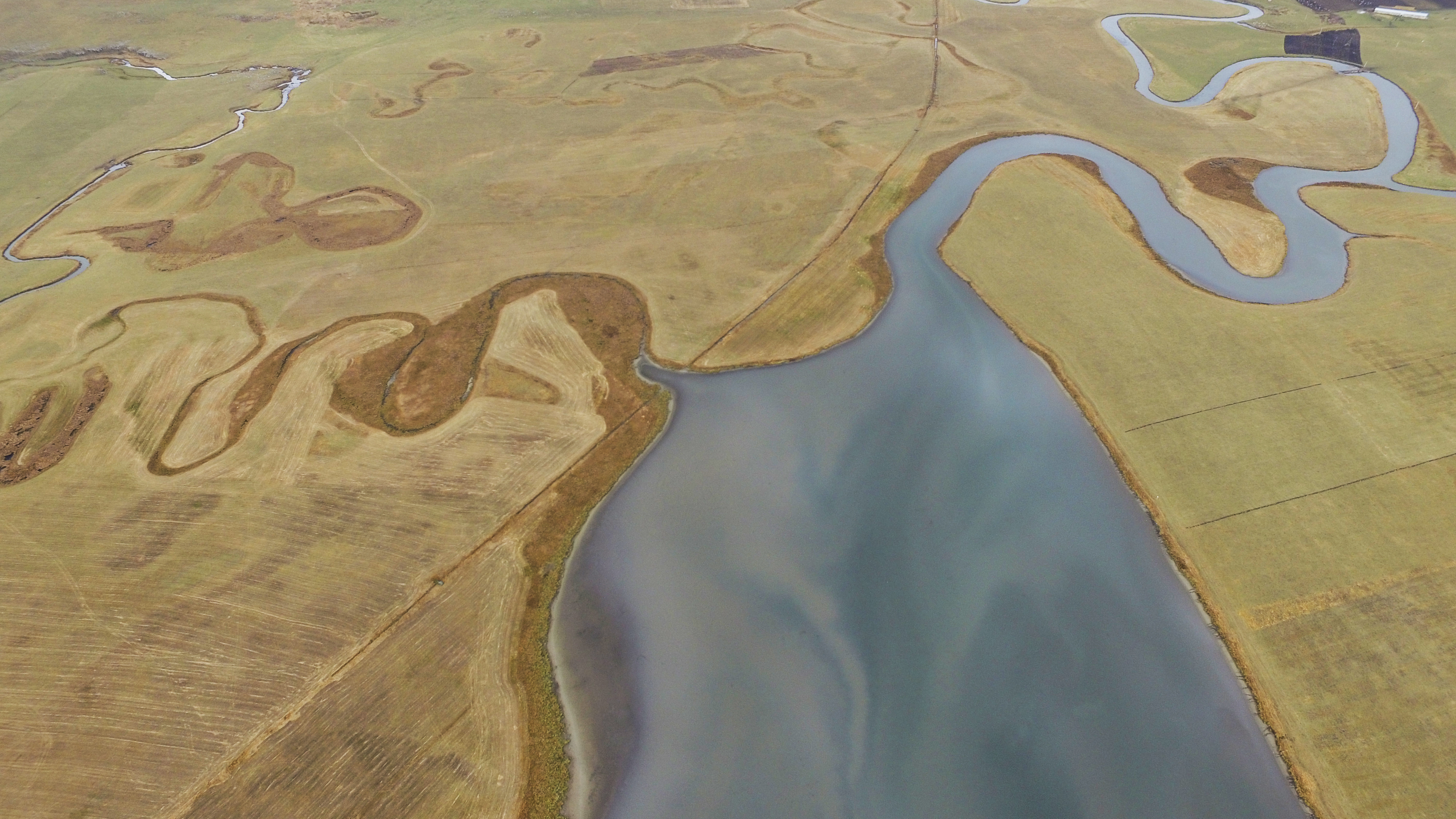 Javakheti Protected Areas was established in 2011. It includes Javakheti National Park, Kartsakhi Managed Reserve, Sulda Managed Reserve, Khanchali Managed Reserve, Bugdasheni Managed Reserve and Madatapa Managed Reserve. Javakheti Protected Areas include Municipalities of Akhalqalaqi and Ninotsminda. There are lots of lakes on Javakheti Plateau, including the biggest one – Lake Paravani. The highest point of Javakheti is Mount Great Abuli, with a height of 3,300 meters above sea level. Javakheti upland is the coldest places among settlements. It is characterized by dry continental climate, while the average annual temperature is quite low. In winter Javakheti lakes freeze for a long time